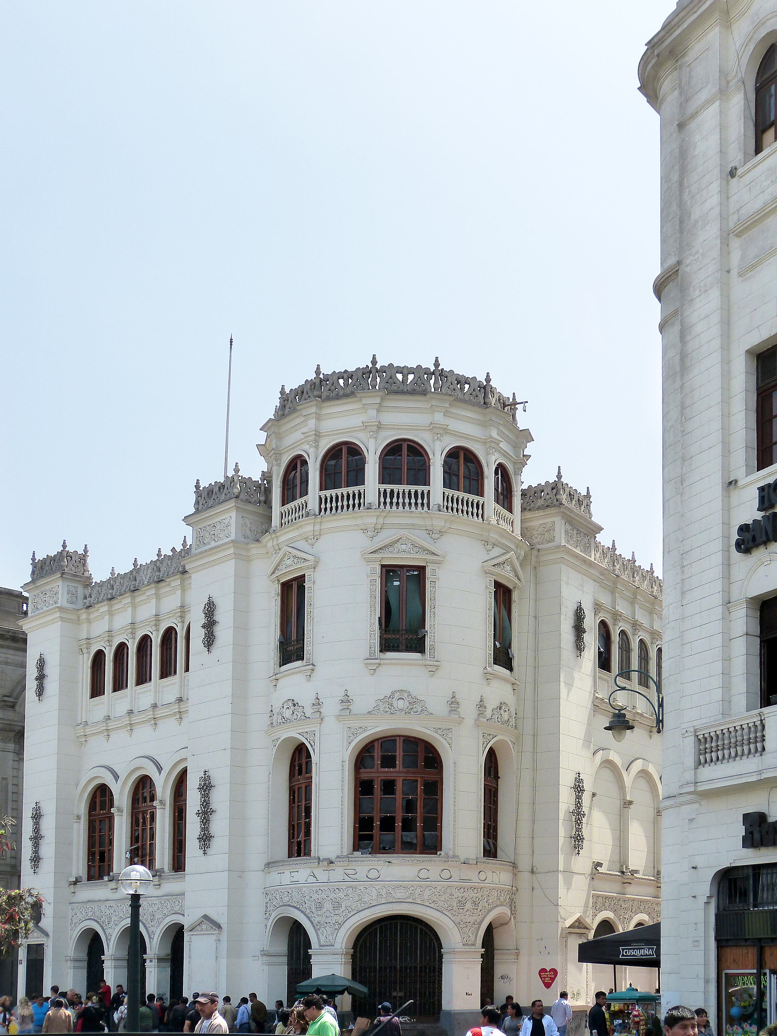 San Martin plaza of Lima, Peru.